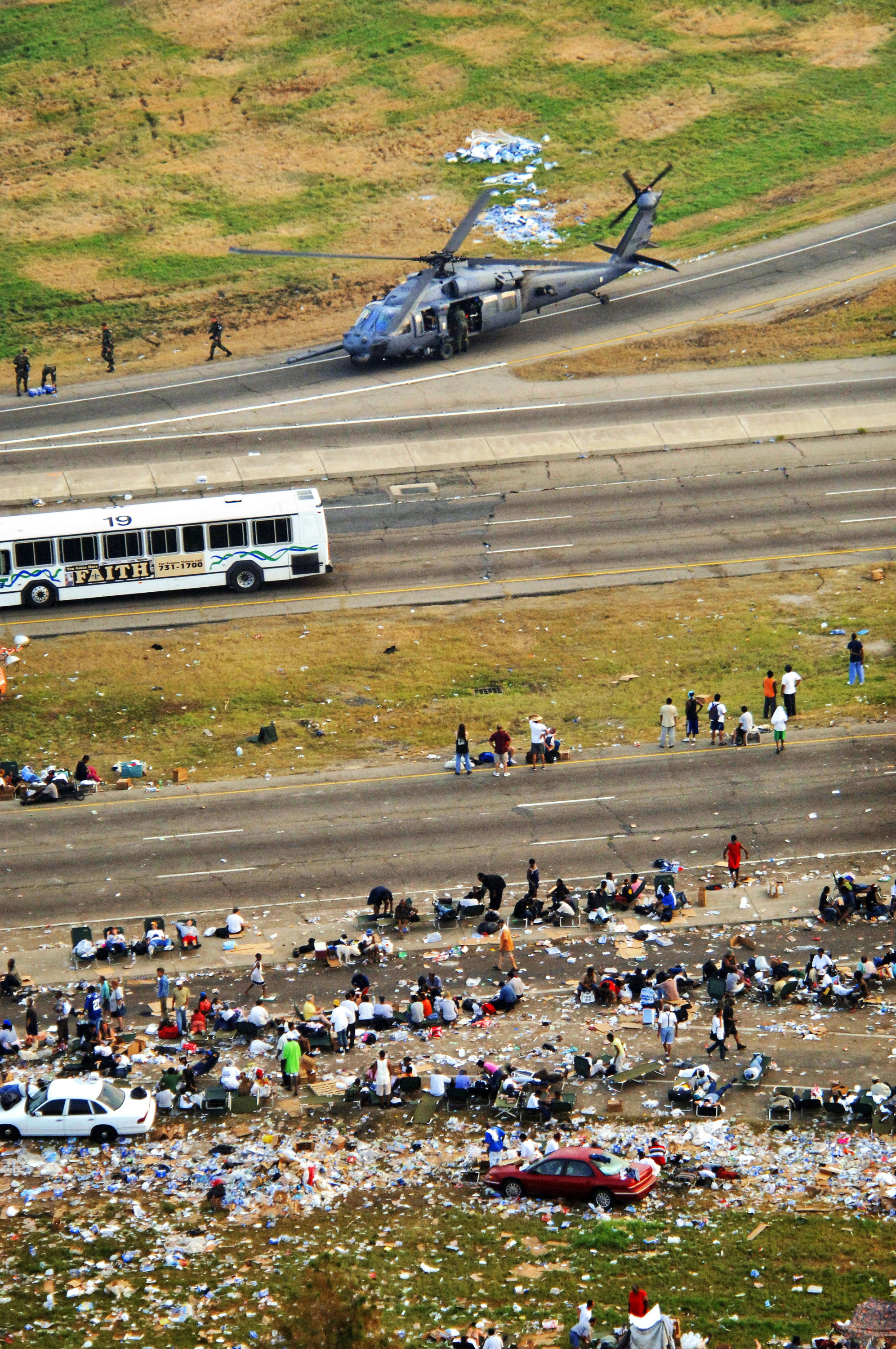 Air National Guard members deliver water and food to stranded citizens here after the city was devastated by Hurricane Katrina. The National Guard has been mobilized to take part in Joint Task Force - Katrina, a humanitarian assistance operation. (U.S. Navy photo by Photographer's Mate First Class Brien Aho) Note: location probably at the makeshift refuge center in Metarie, Louisiana, around the first unflooded interstate highway interchange, west of New Orleans. -- Infrogmation 23:21, 28 May 2008 (UTC)